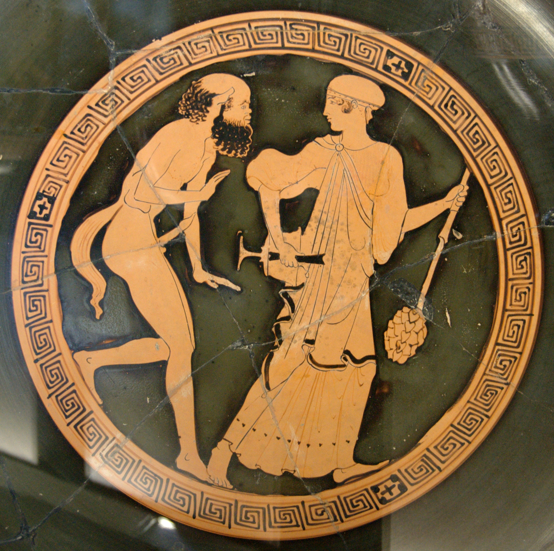 Silenus and maenad. Tondo of an Attic red-figure kylix, 460–450 BC.